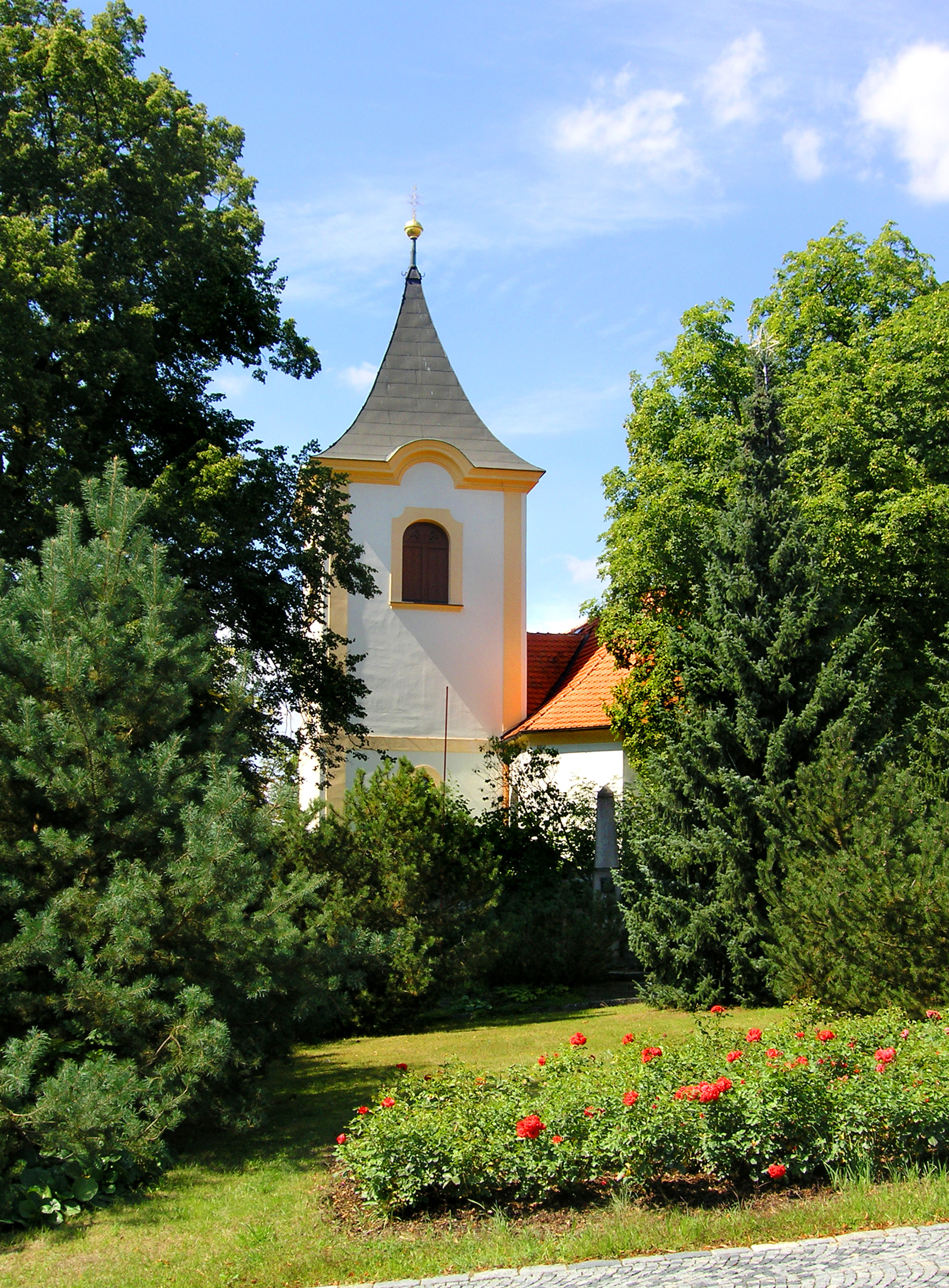 Our Lady of the Snow church in Velké Popovice, Czech Republic